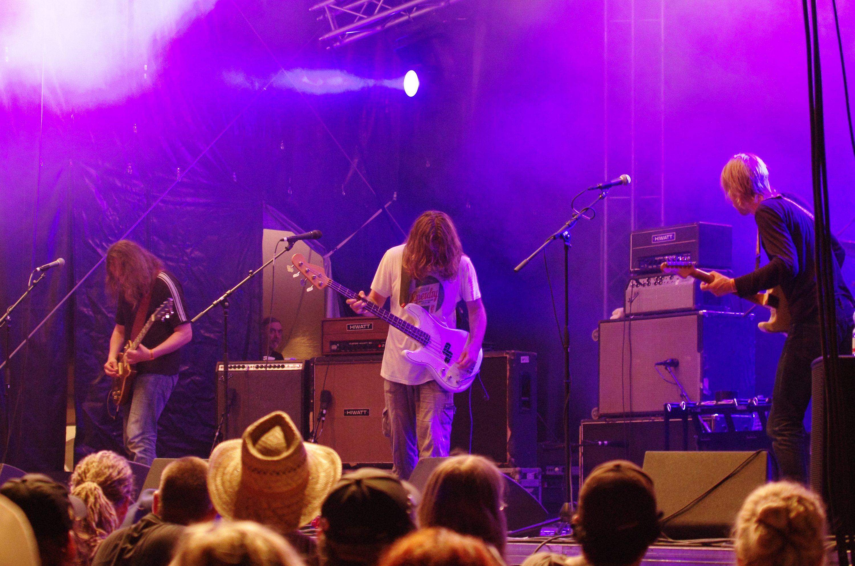 Motorpsycho at Krach am Bach festival in Beelen. Lineup: Bent Sæther (bass/guitar/vocals), Hans Magnus "Snah" Ryan (guitar/vocals), Kenneth Kapstad (drums), Reine Fiske (guitar).